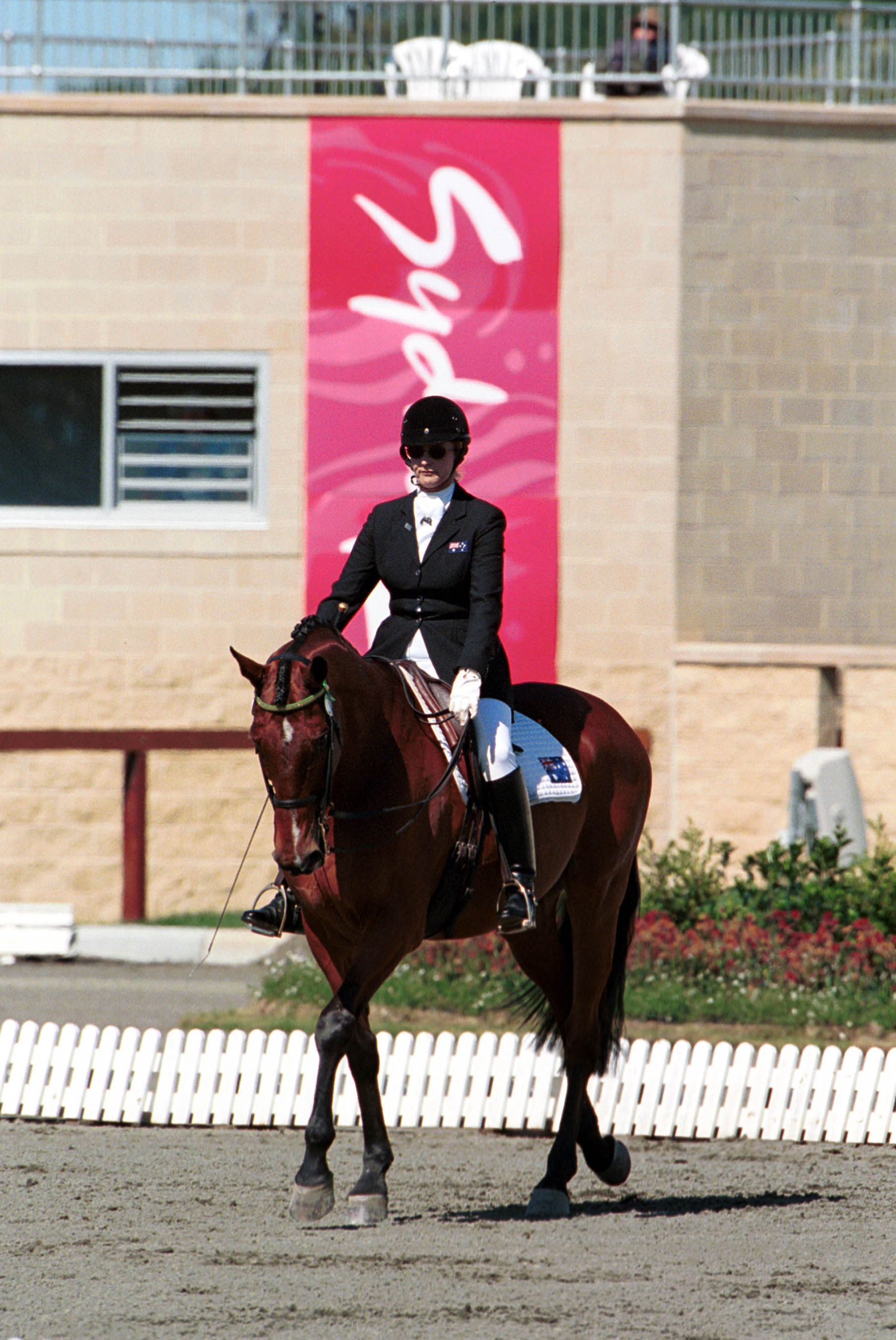 Action shot of Australian equestrian Sue-Ellen Lovett during dressage at the 2000 Sydney Paralympic Games